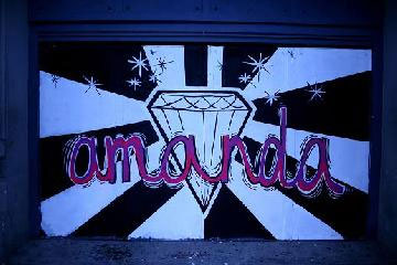 Graffiti of Amanda O, internet serie in Argentina, 2008